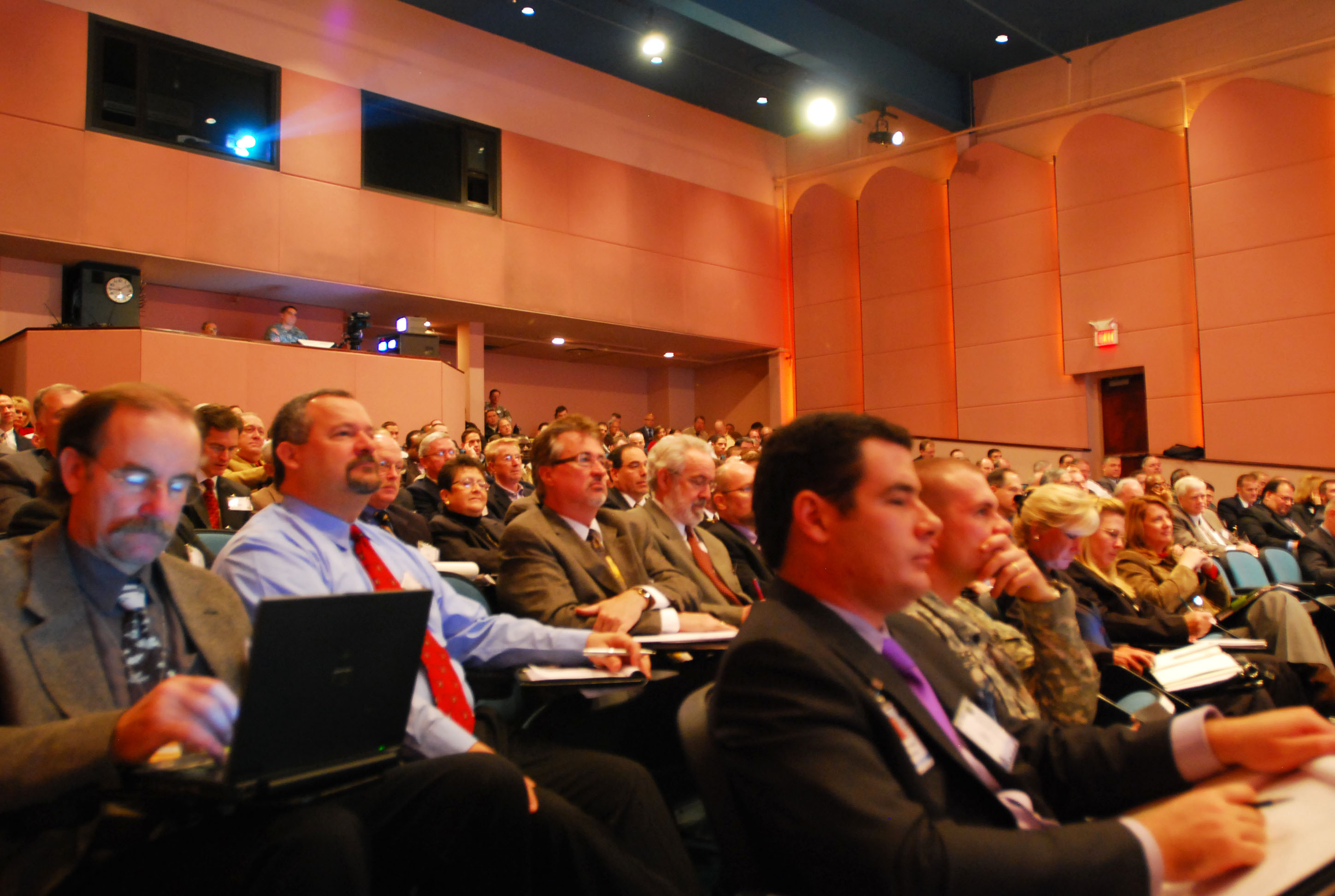 A capacity crowd of industry professionals listen to the Vice Chief of Staff of the Army Gen. Peter W. Chiarelli re-emphasize details of the Army's Modernization Plan and lay out what is needed to conceive the Army's future Ground Combat Vehicle during the second Ground Combat Vehicle Industry Day held Nov. 24, 2009, at the Tank Automotive Research, Development and Engineering Center in Warren, Mich.